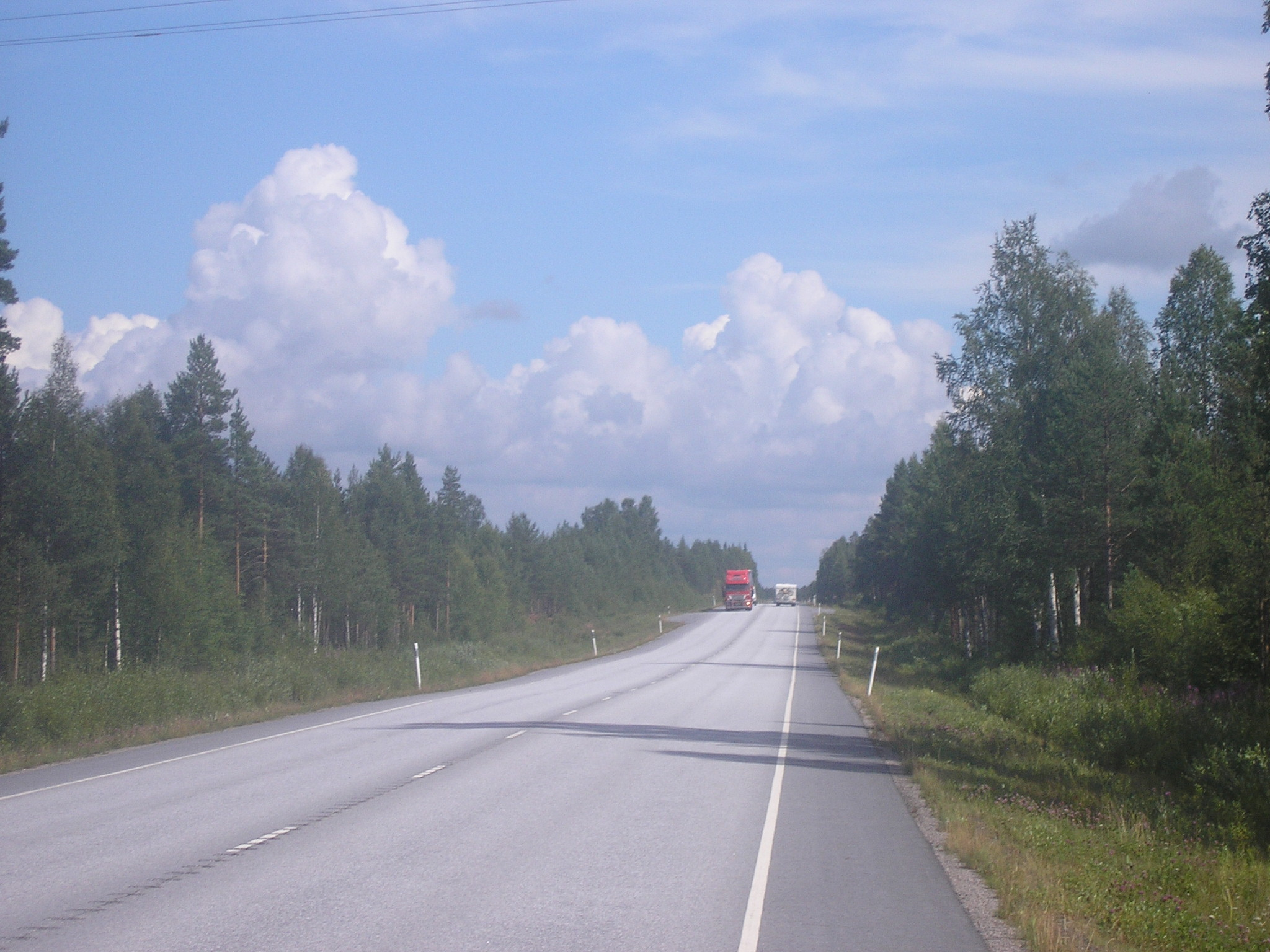 Main road 28 near Riippa, Lohtaja, Finland, towards Kannus.